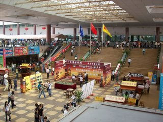 Zhuhai underground shopping mall enterance Zhuhai, Guangdong Province, China 2006 I took the picture.